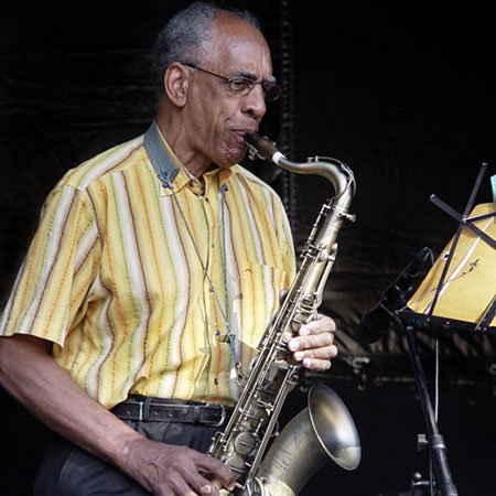 John Thcicai